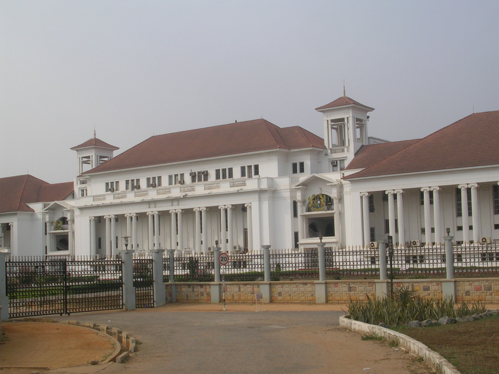 Supreme Court of Ghana in Accra